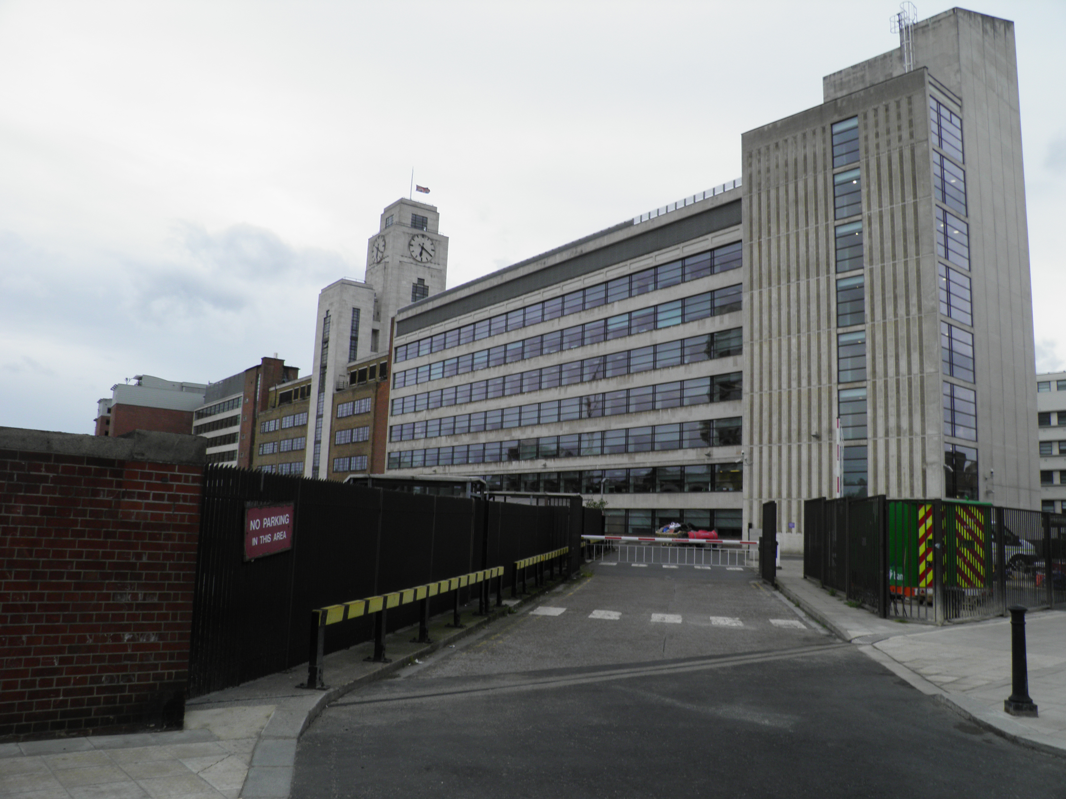 National Audit Center,London